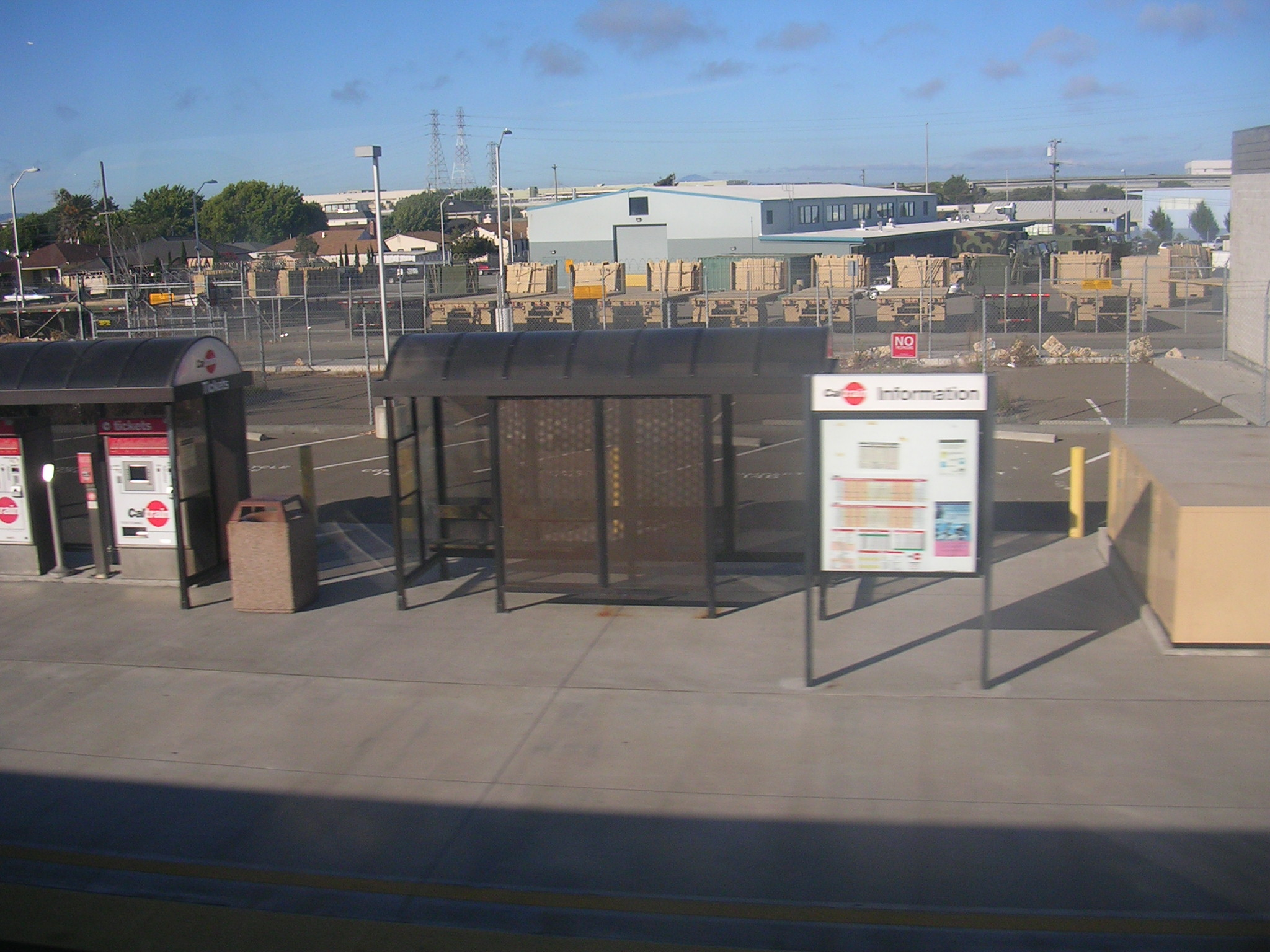 The San Bruno Caltrain station as seen from a northbound Baby Bullet train flying by.